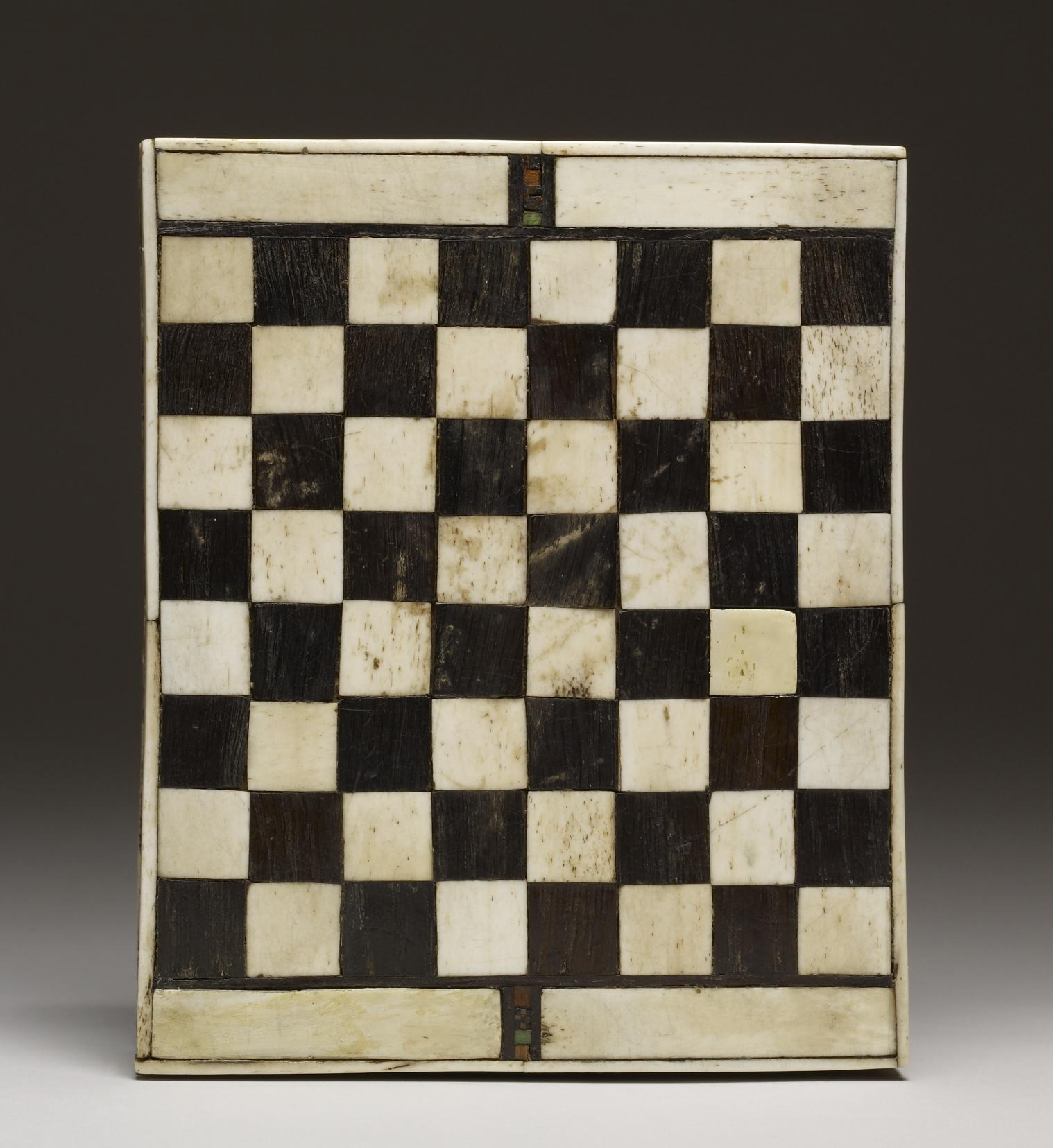 Board games, such as chess, checkers, and backgammon, were increasingly popular in Europe during the later Middle Ages, after it had been brought back by crusading knights from the Near East. Portable chess boxes with scenes of hunting, dancing, and courtship were mass-produced in inexpensive materials to contain the game pieces. The playing board is set into the box's underside.